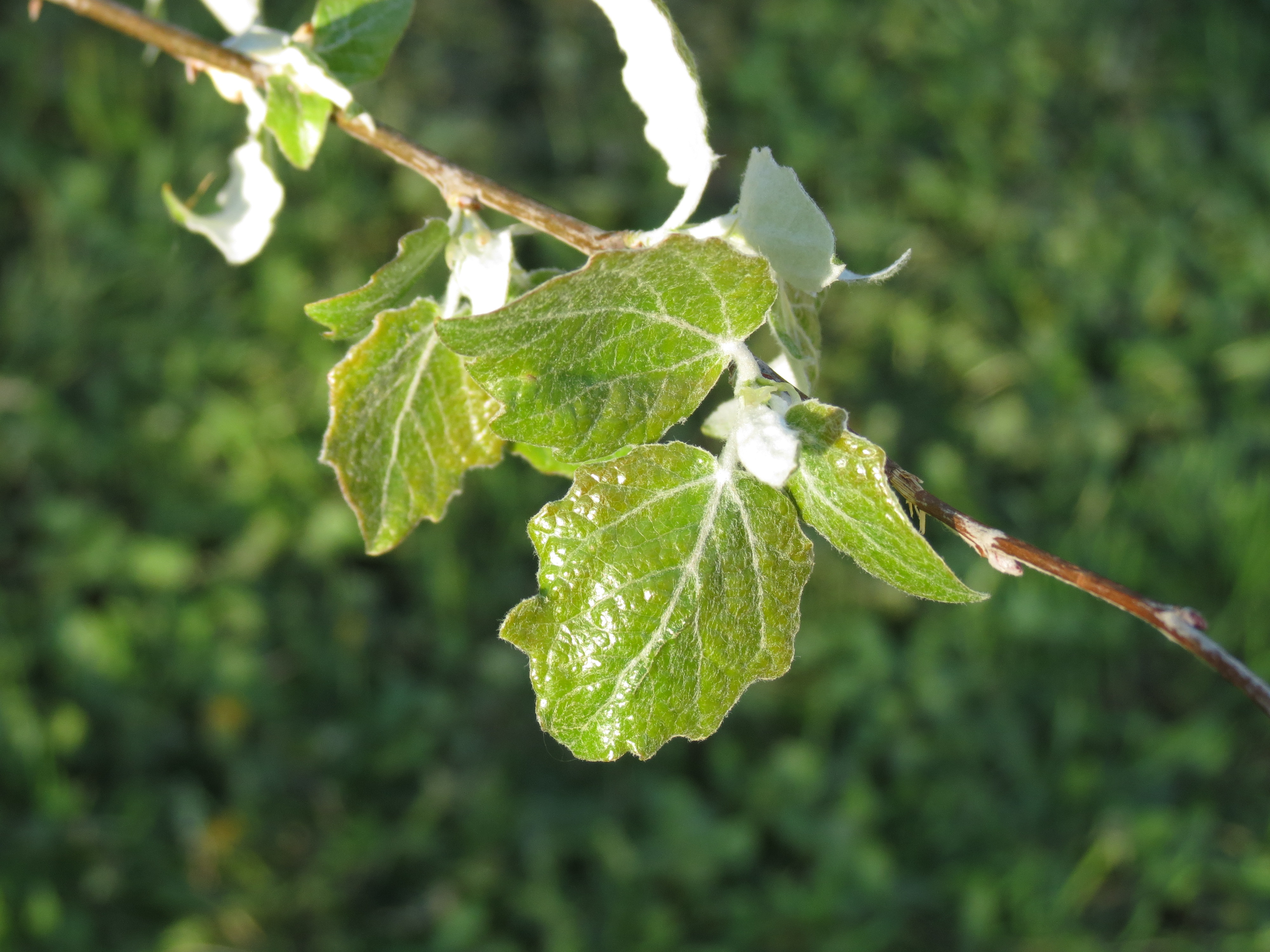 Populus x canescens (Aiton) Sm., Grey Poplar, Utterlsev Mose, Søborg, Denmark, 25 April 2014